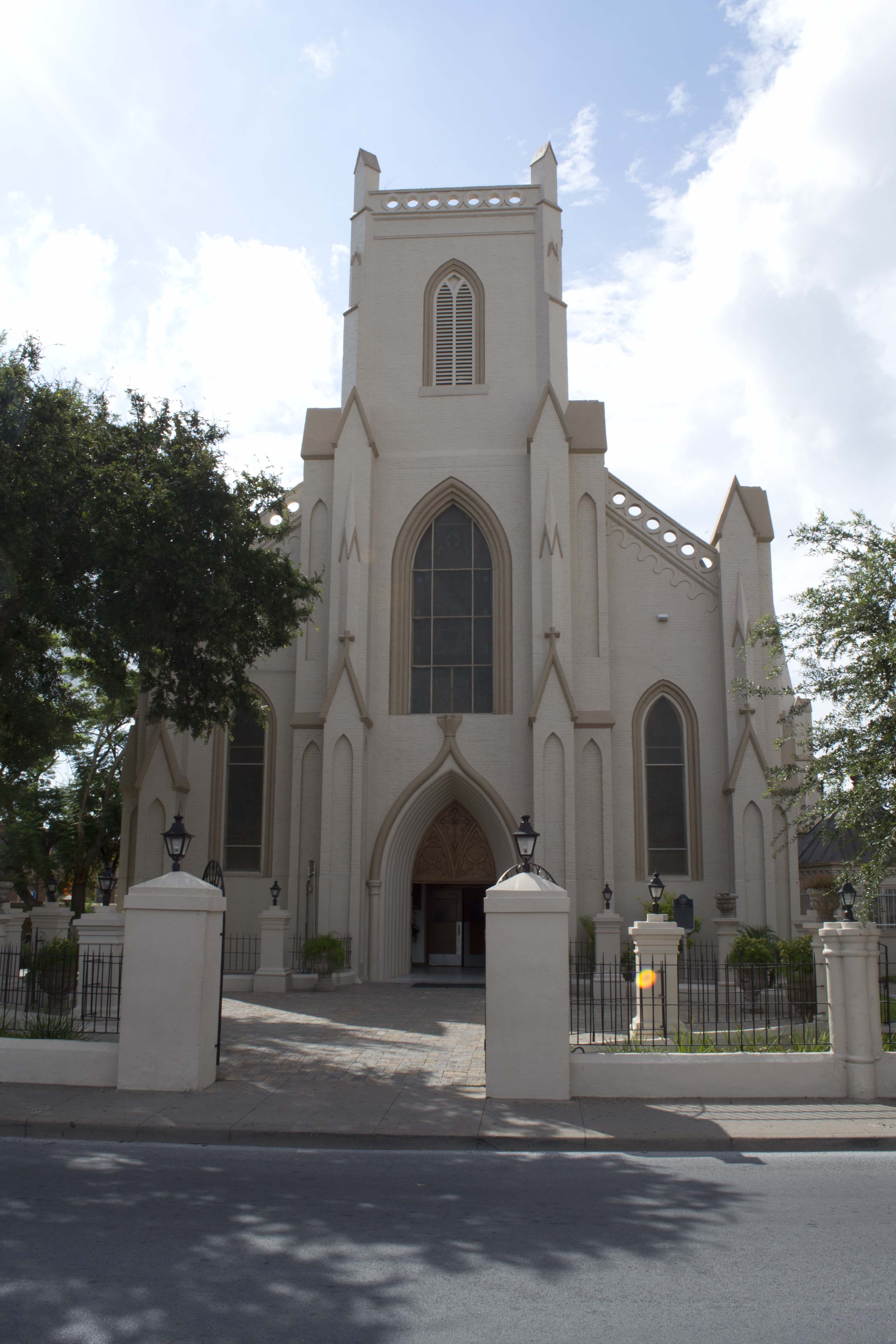 Immaculate Conception Church in Brownsville Texas. Listed on NRHP.